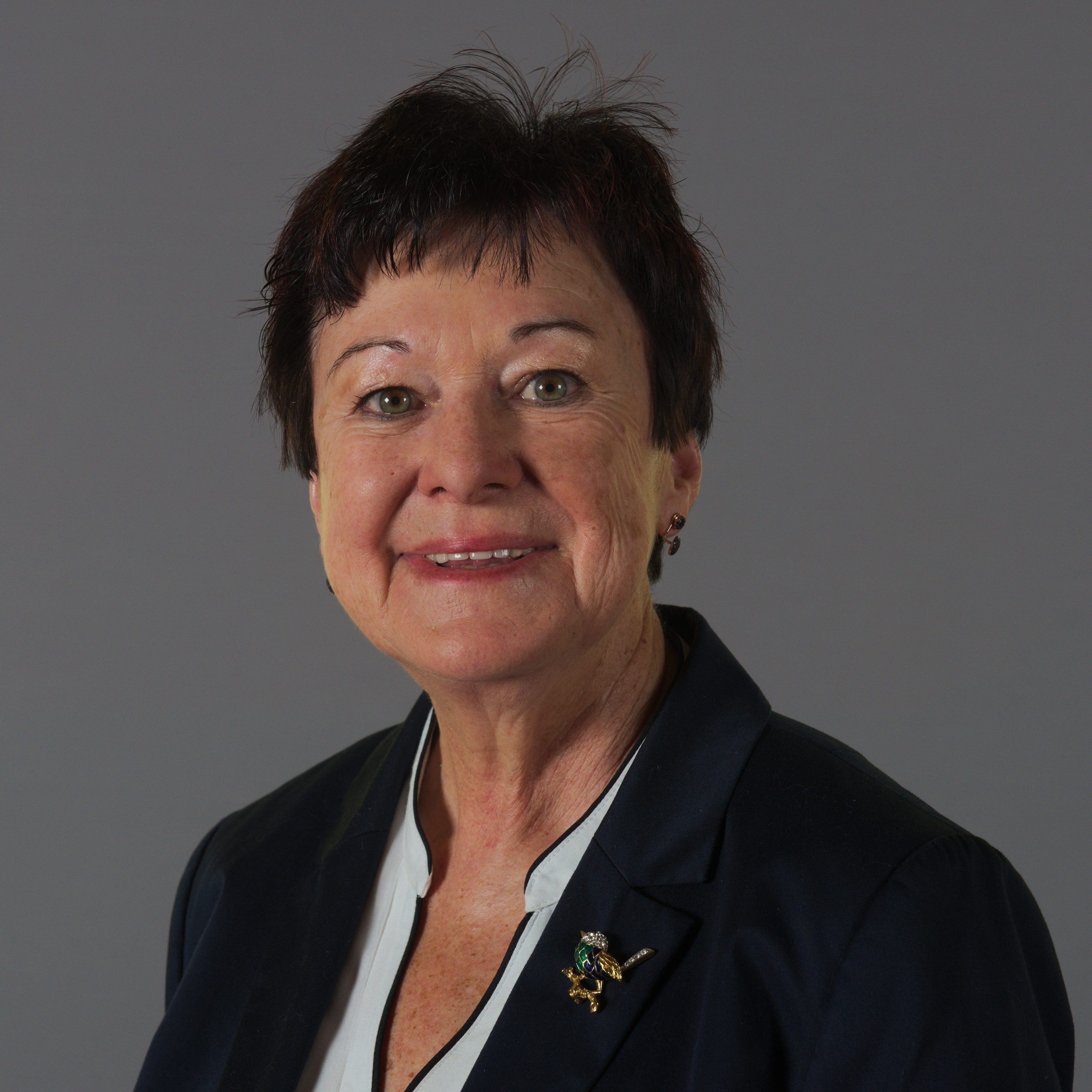 Austrian politician Susanne Kurz